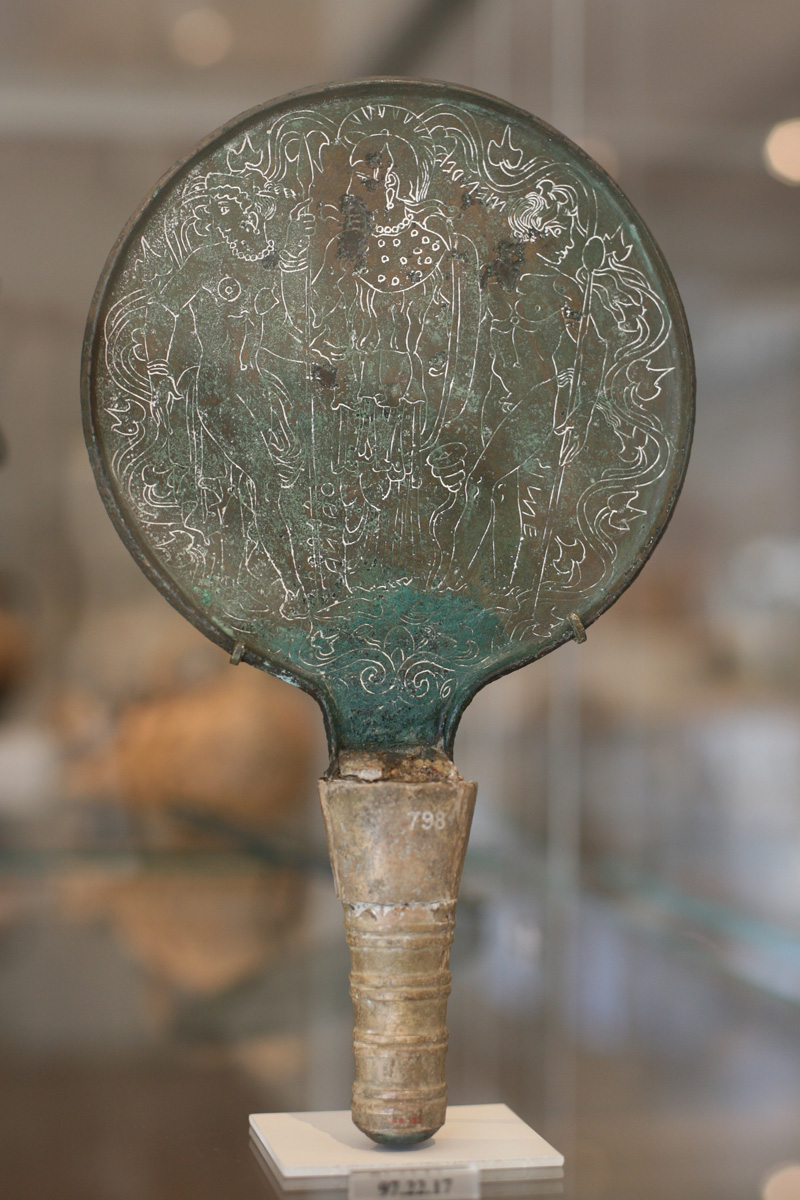 Metropolitan Museum of Art # 97.22.17 Photographer: Katie Chao